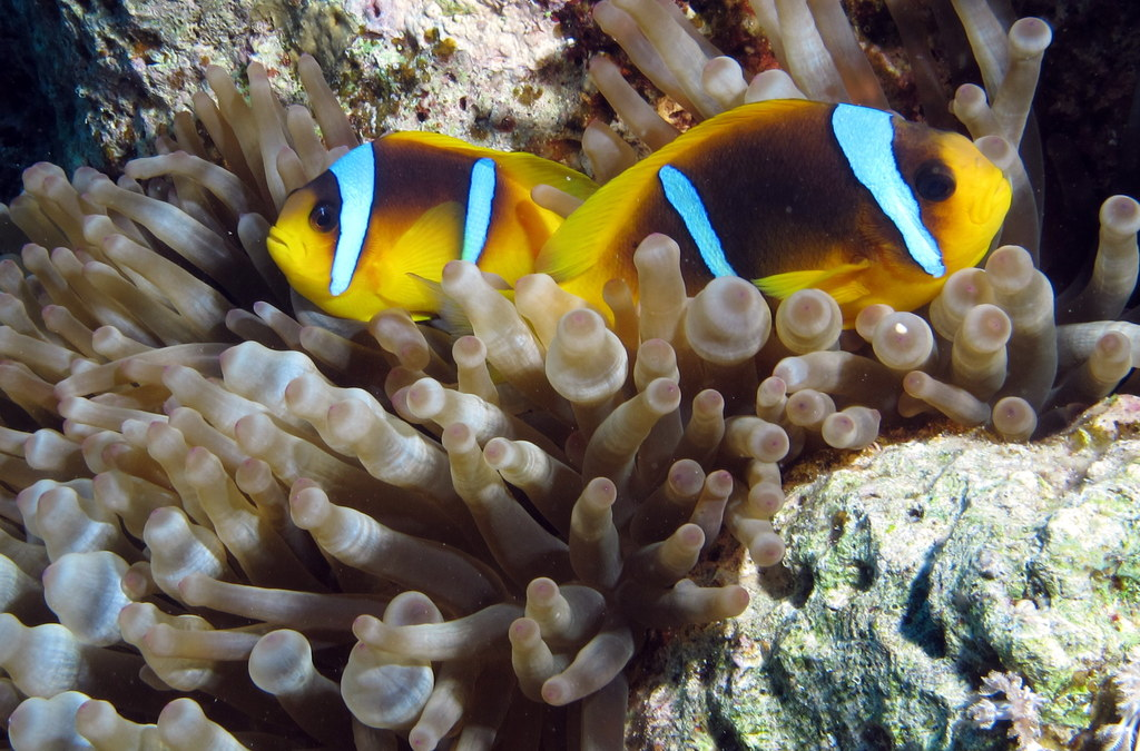 Red Sea Anemonefish, Amphiprion bicinctus, in its host anemone at Gota Abu Ramada, Red Sea, Egypt #SCUBA